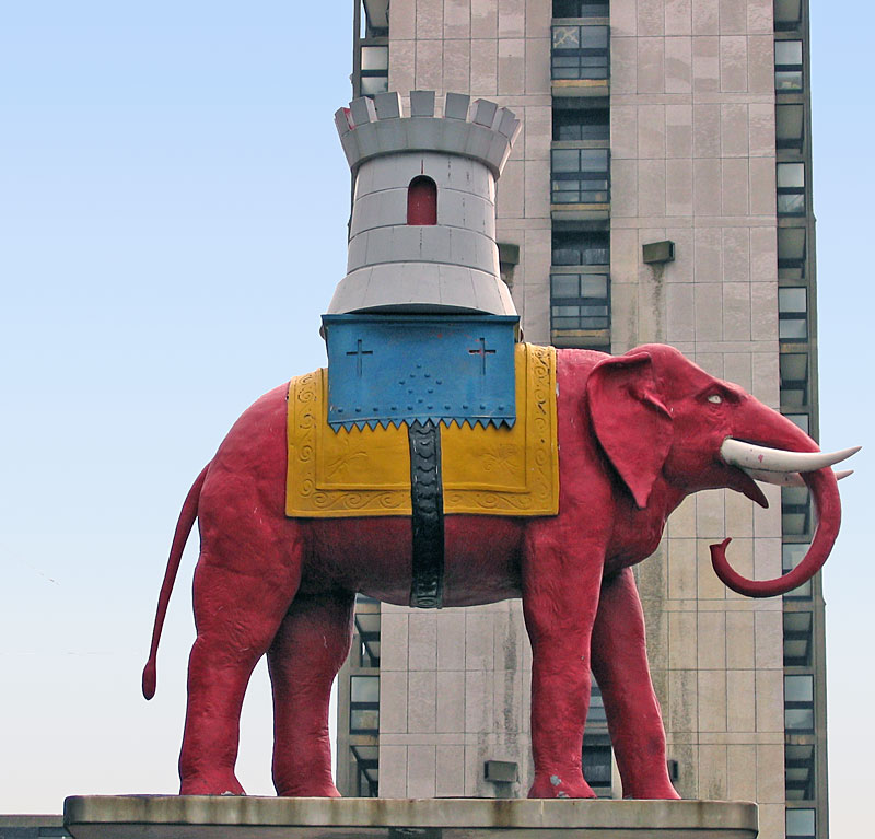 An elephant with a castle - Elephant and Castle, Southwark, London. This is the former pub sign which is now on front of the shopping centre. Taken by C Ford, 18th July 2004.